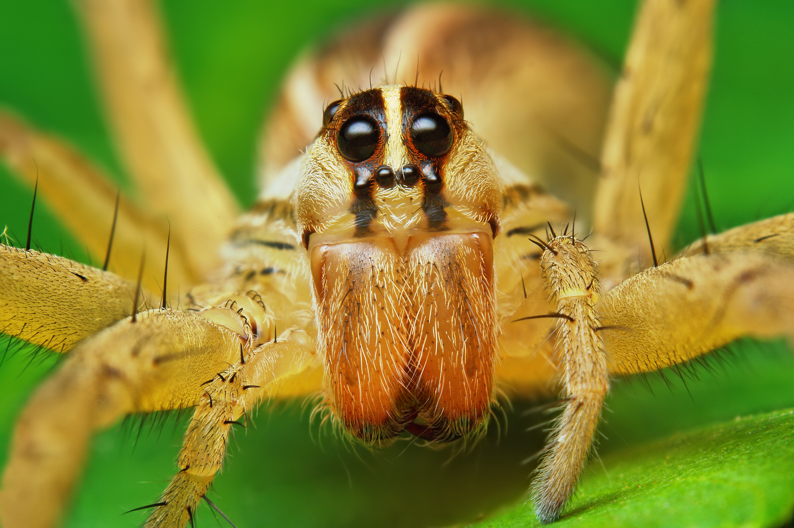 Rescued this female R. rabida from being chopped up in the lawnmower this afternoon and took a few photos before letting her go about her way safely. She was FAST. Despite missing a leg, she made several (almost successful) escape attempts. On the deck, she cleared a good 10 feet in just a few seconds while trying to get away! This species can get quite a bit bigger too - I have seen adult females (I believe this one to be a sub-adult) that would easily cover my entire palm with their legs stretched out! The photo above is a full frame focus stack of 3 photos taken at f/16 with my vintage 1960's thread mount M42 Asahi Pentax "Super Takumar" f/1.4 50mm prime lens reversed to a few extension tubes.